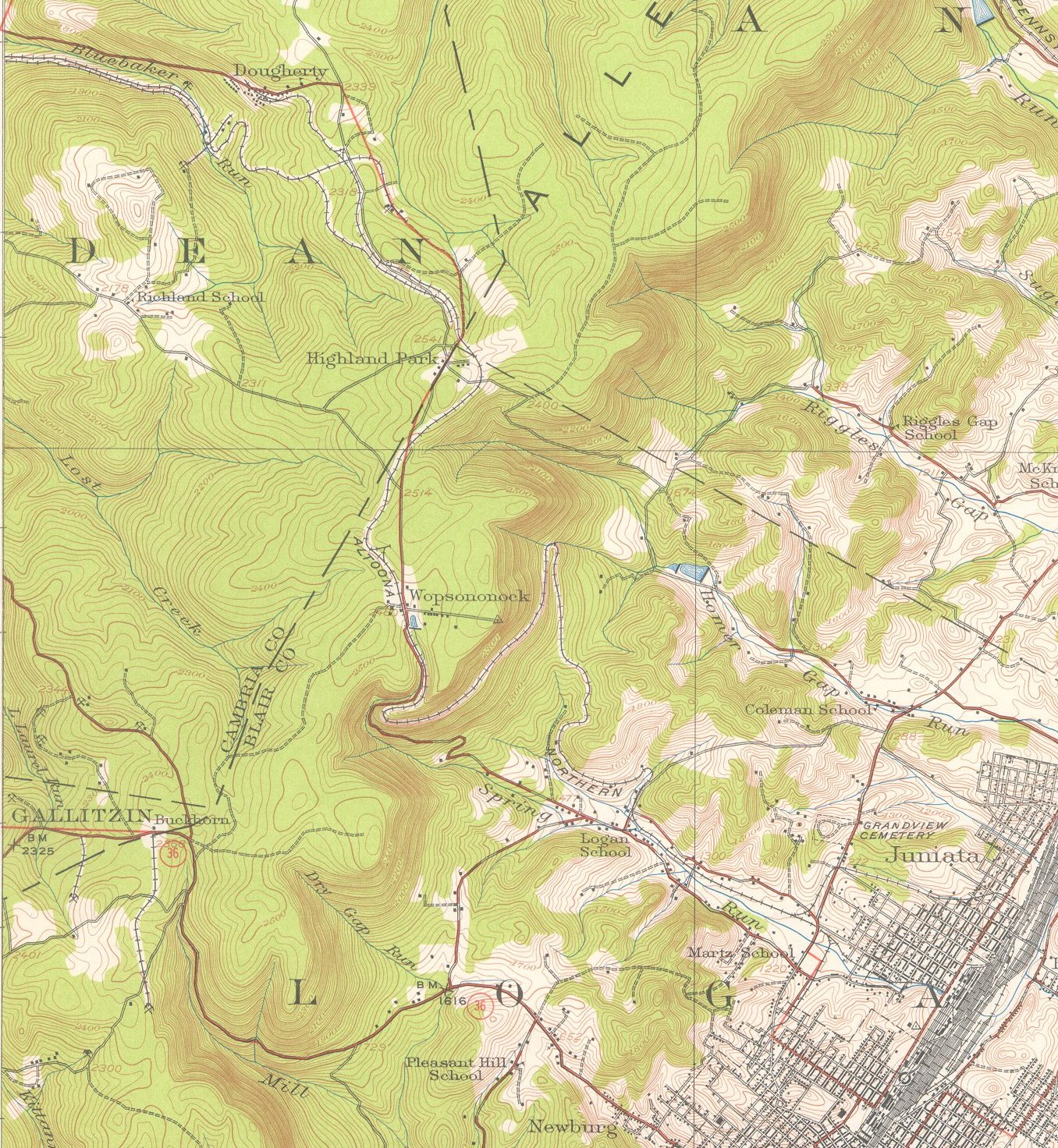 Topographic map depicting the route of the Altoona and Beech Creek Railroad.